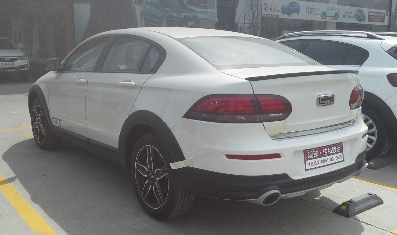 Qoros 3 GT photographed in Yinchuan, Ningxia province, China.